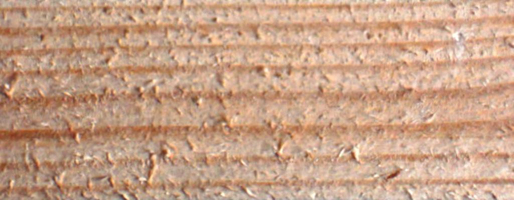 Woolly grain